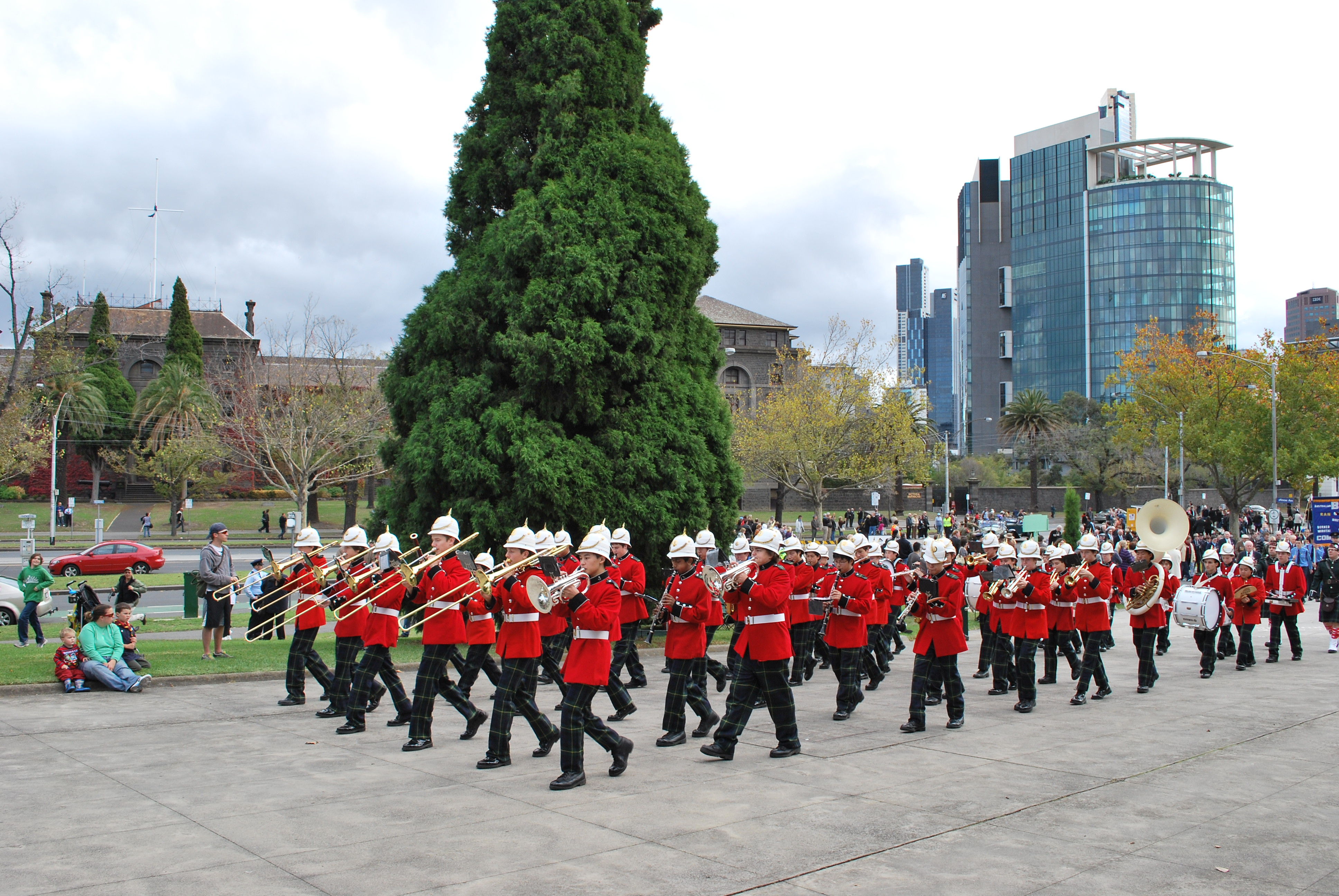 Marching band at the 2009 Anzac Day march in Melbourne